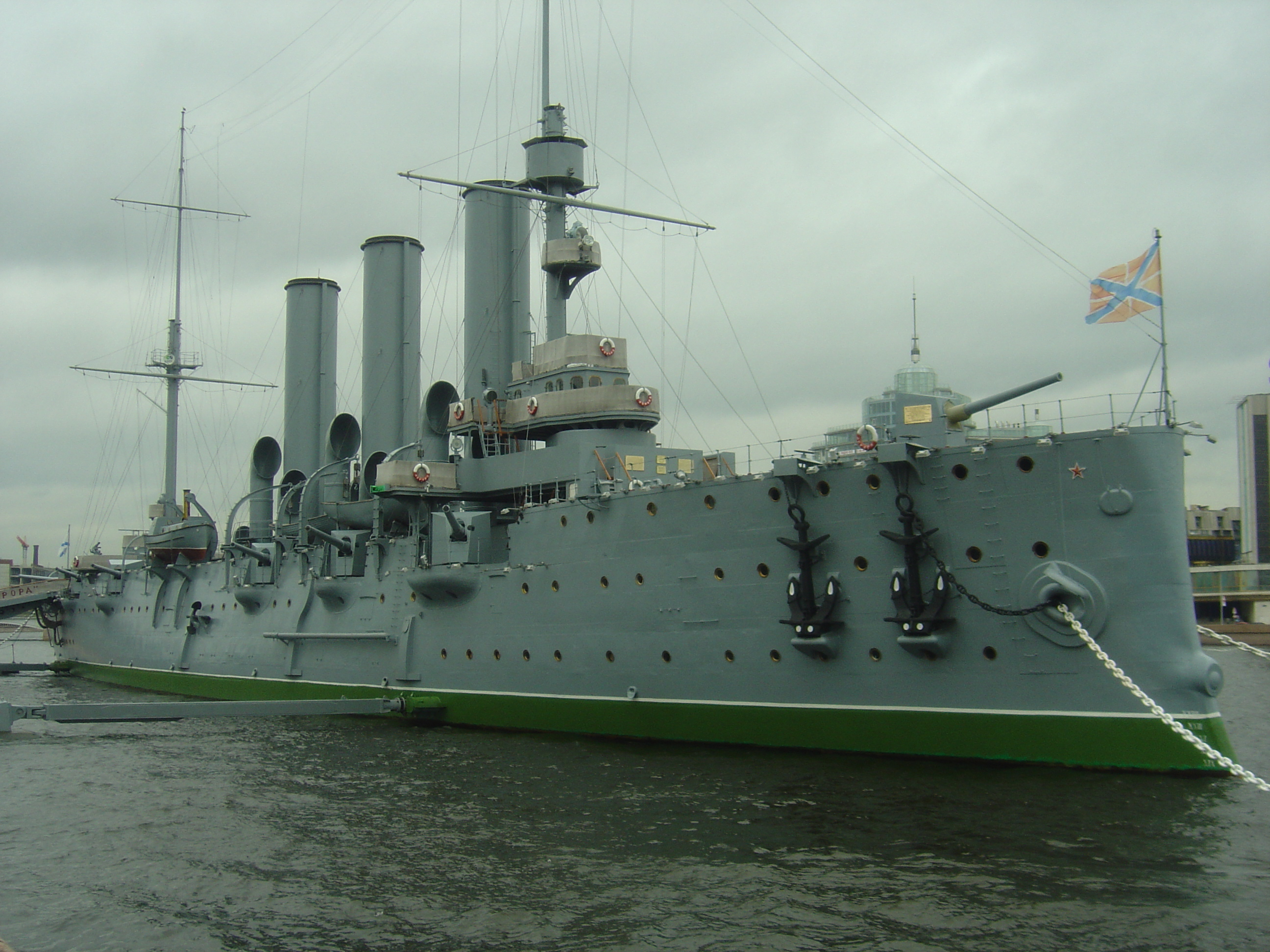 Cruiser Aurora, now serving as a museum, in St. Petersburg, Russia